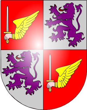 Arms of the Portuguese Manoel/Manuel family, Dukes and Marquis of Tancos and Counts of Atalaia. Made by JSobral